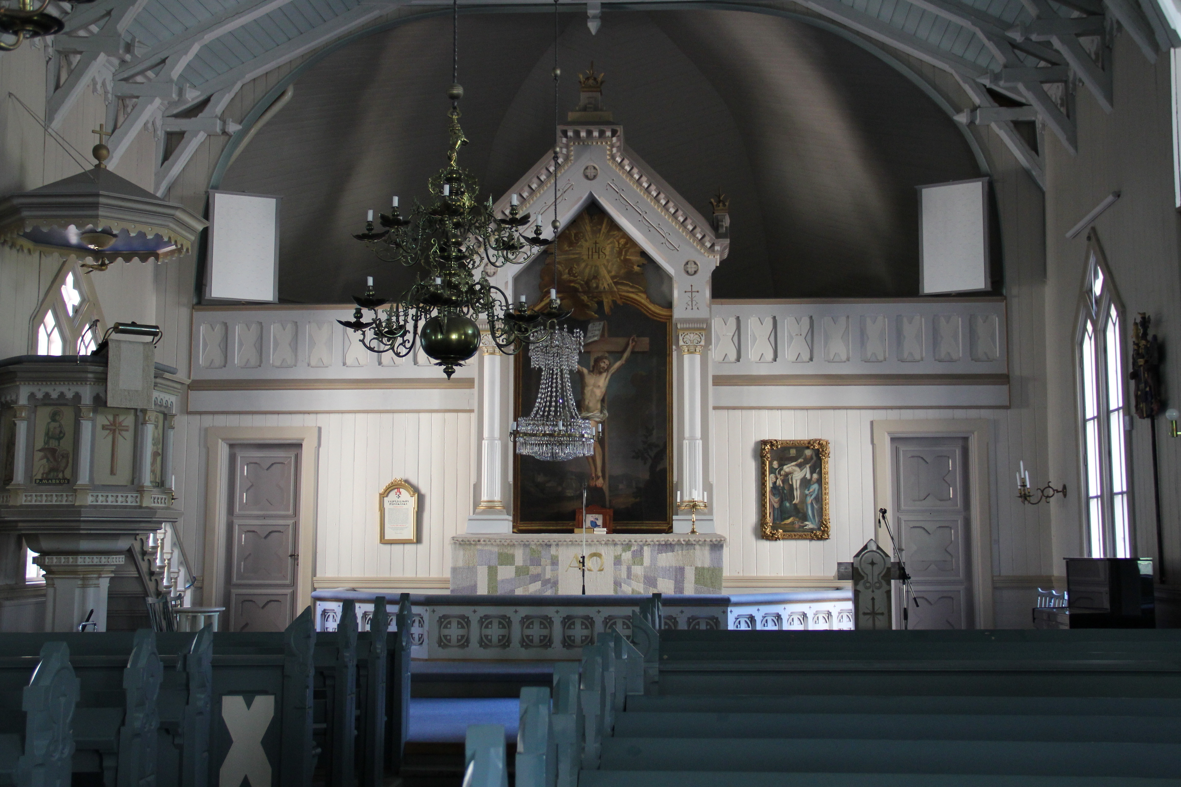 Köyliö Church in Köyliö, Finland. Original design by Gustaf Adolf Wiman, completed in 1752. Significant changes in 1888–1889 designed by architect Sebastian Gripenberg. Later changes in 1978–1979. Altar.